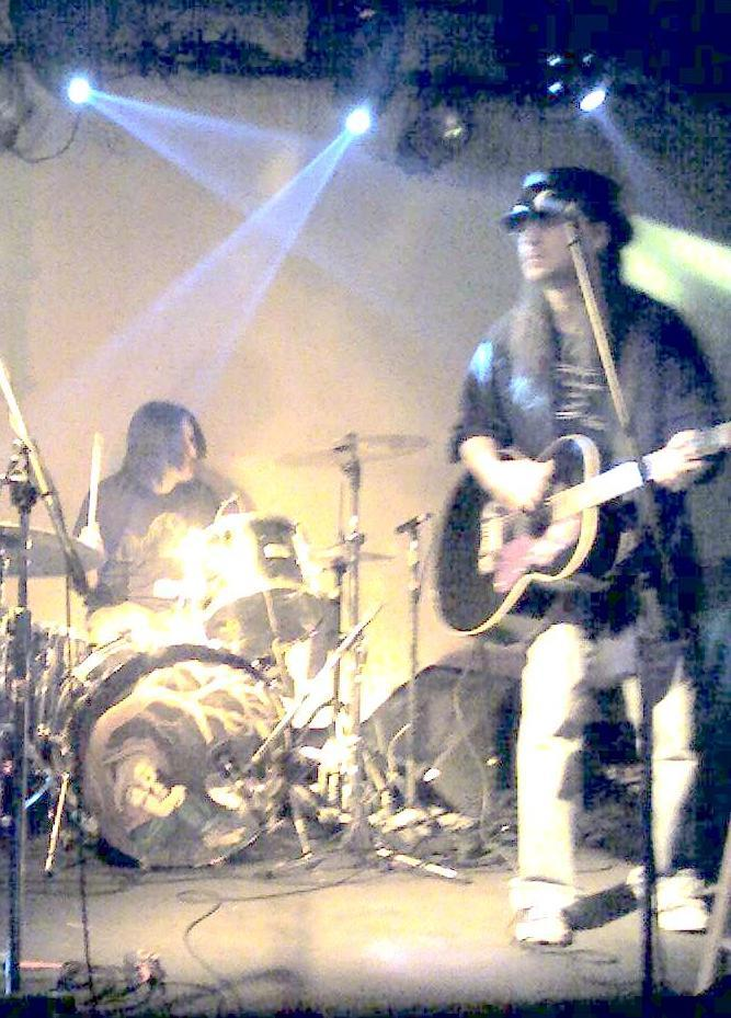 Shawn Z. live on stage